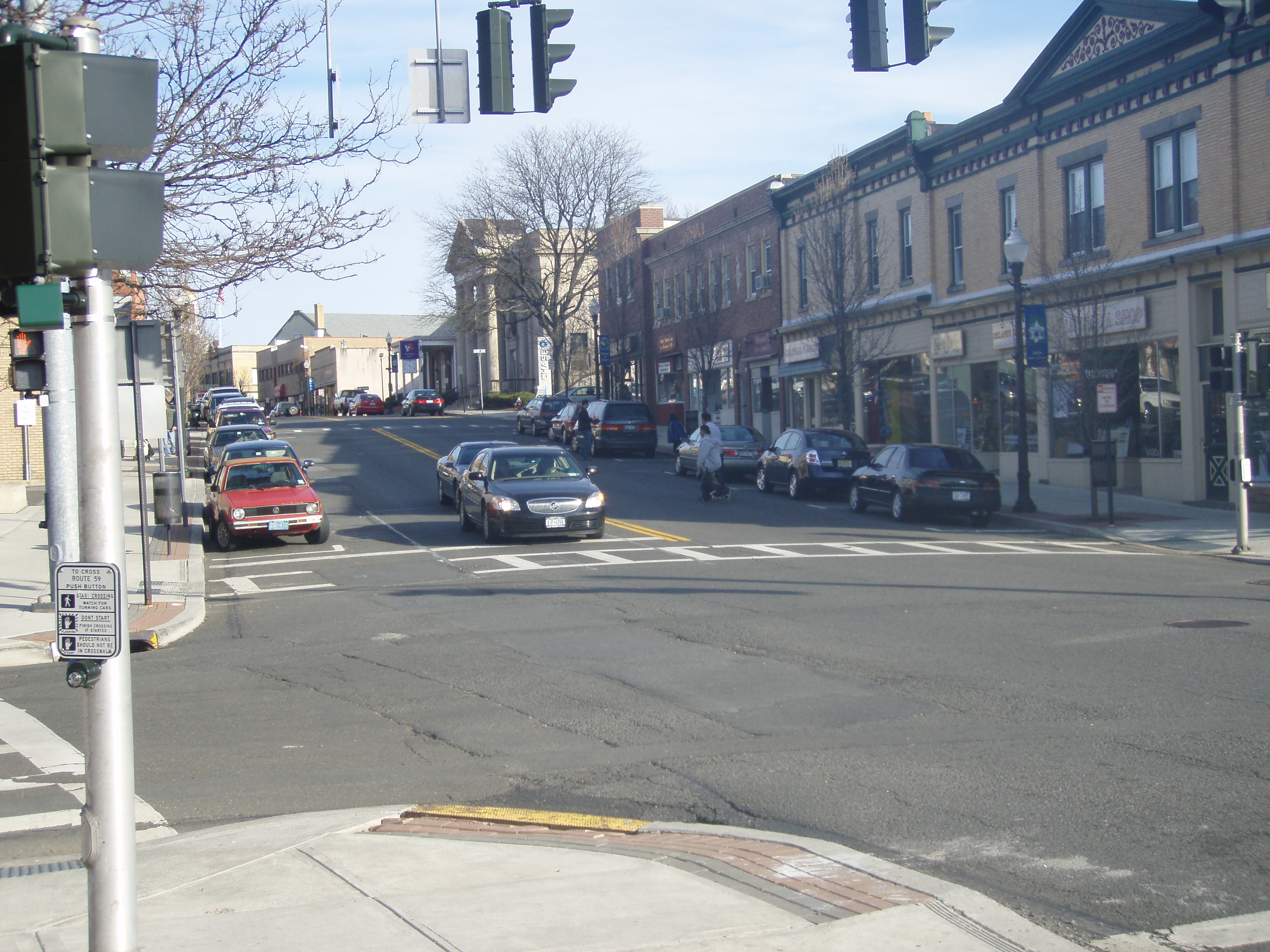 Downtown Suffern, New York